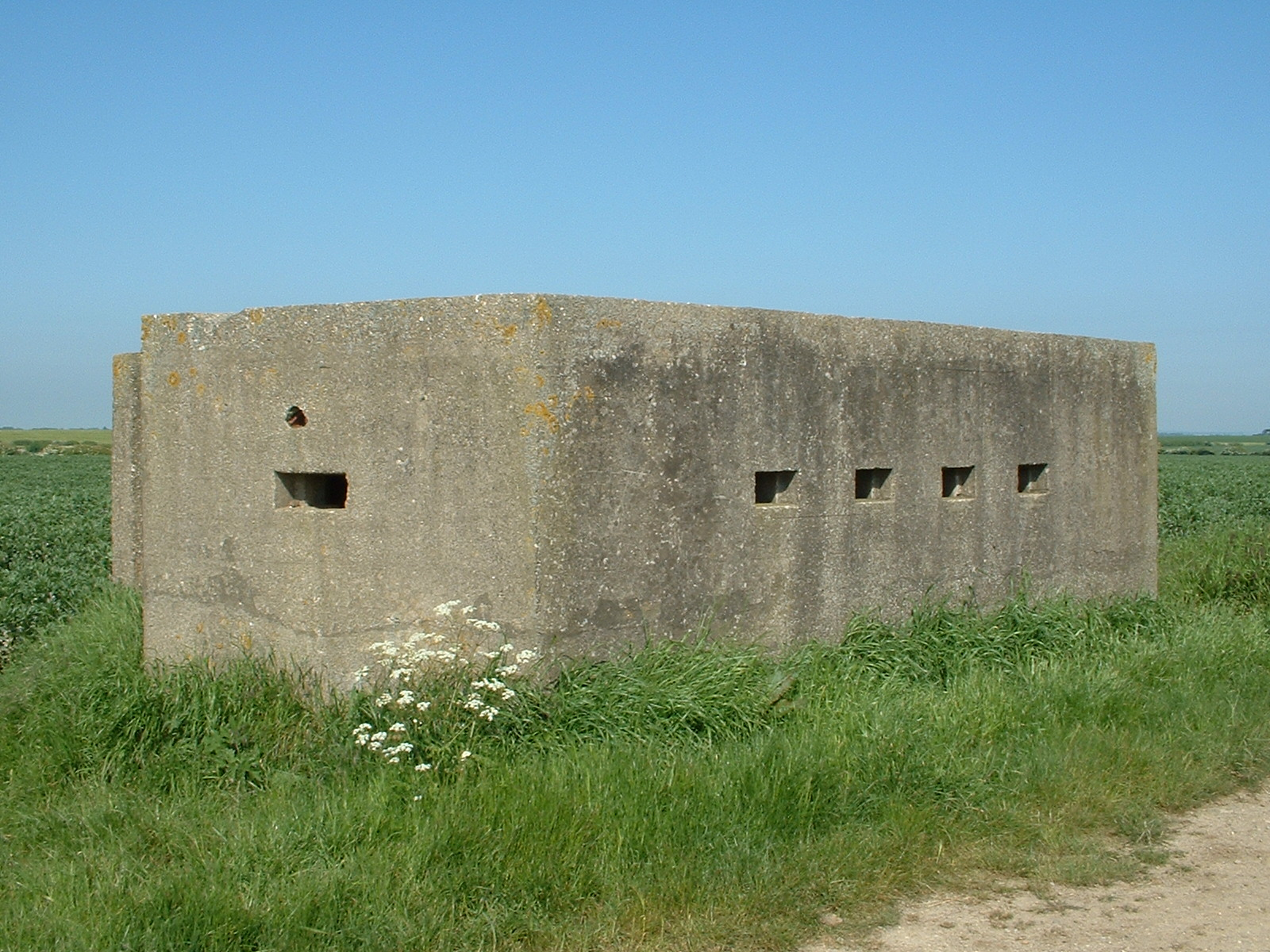 Pillbox - Type Lozenge, Atwick, East Riding of Yorkshire, England, OS reference TA194512 Easy access from public footpath. Photographed by Gaius Cornelius on 07-Jun-06. OS reference TA194512